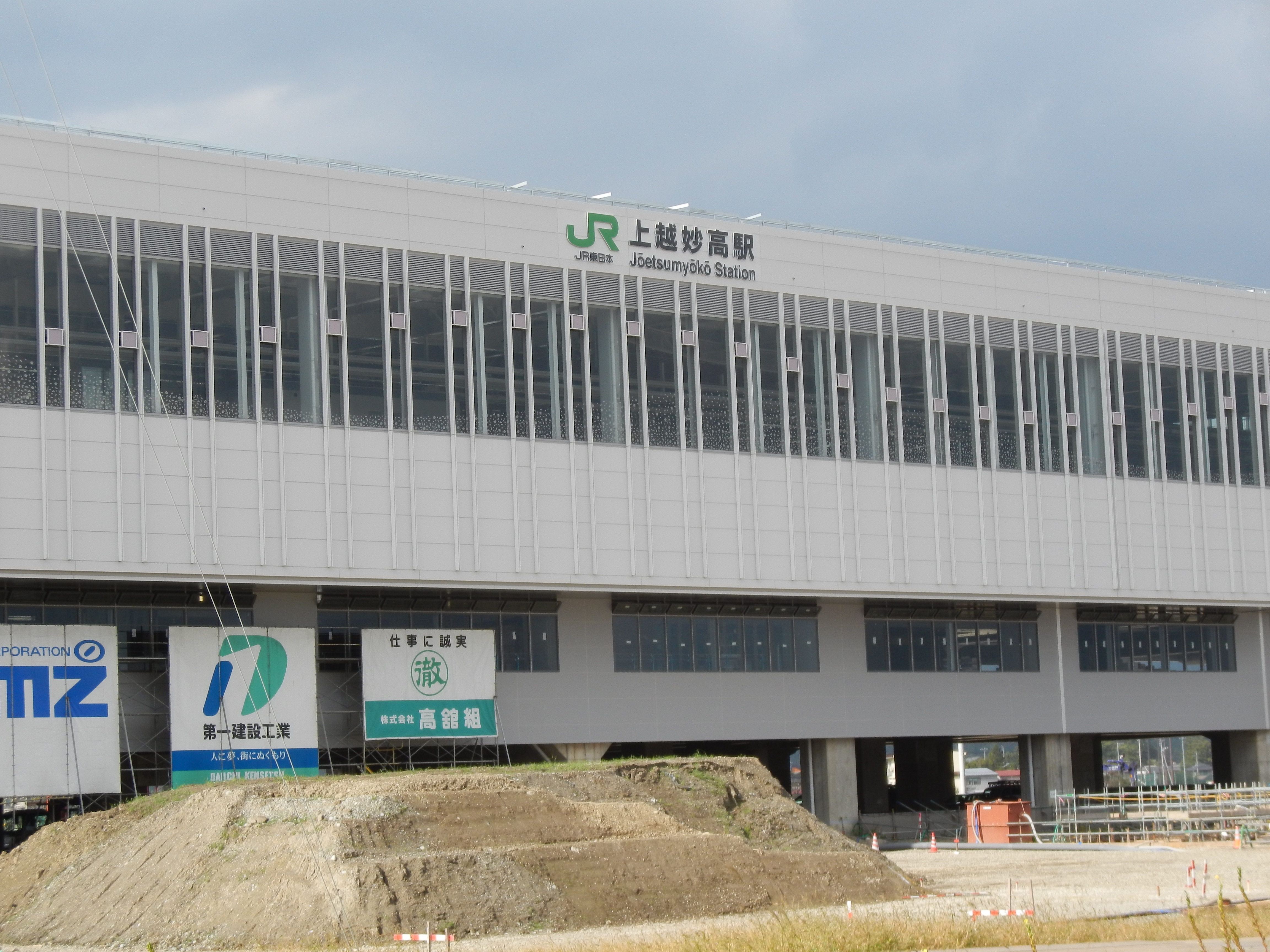 Joetsumyoko Station on the Hokuriku Shinkansen under construction, seen from the platform at Wakinoda Station